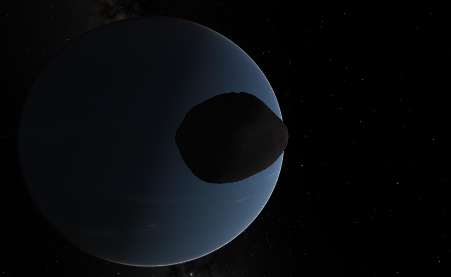 A simulated view of Naiad orbiting Neptune. Creating using Celestia.